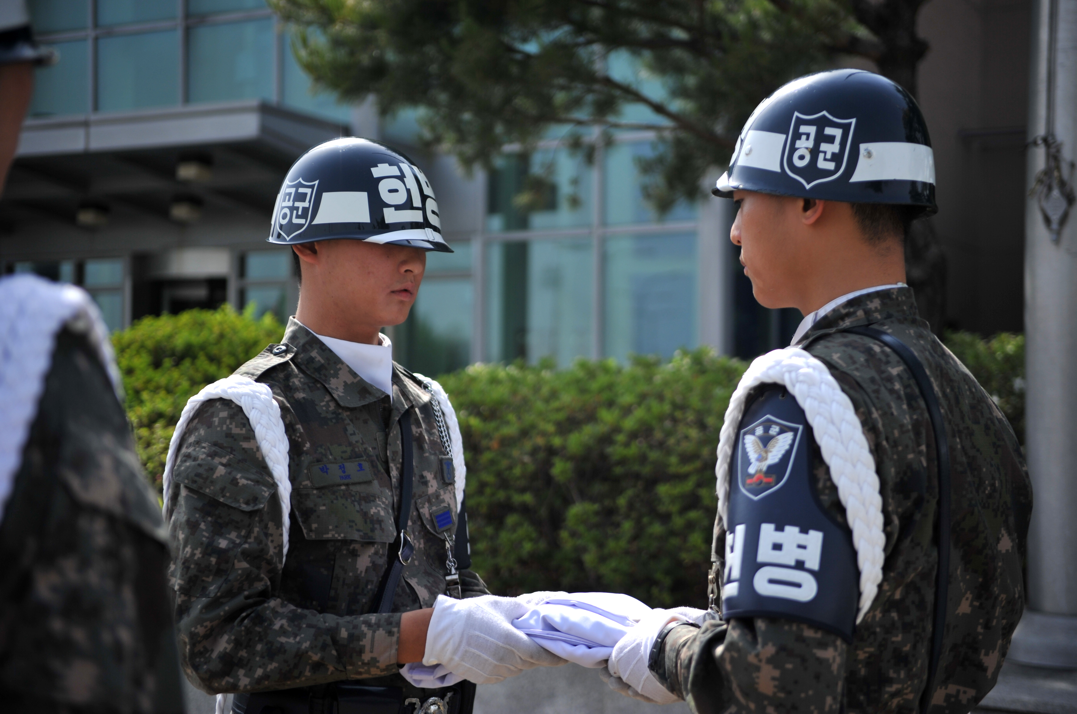 Members of the Republic of Korea air force air police fold the Korean flag during the Police Week retreat ceremony at Osan Air Base, ROK, May 16, 2014. Police Week is an annual tradition centered around National Peace Officers Memorial Day, observed on May 15.